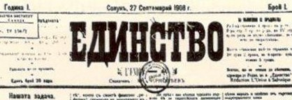 Тhe newspaper "Unity" which was published in Salonica in 1908-1909